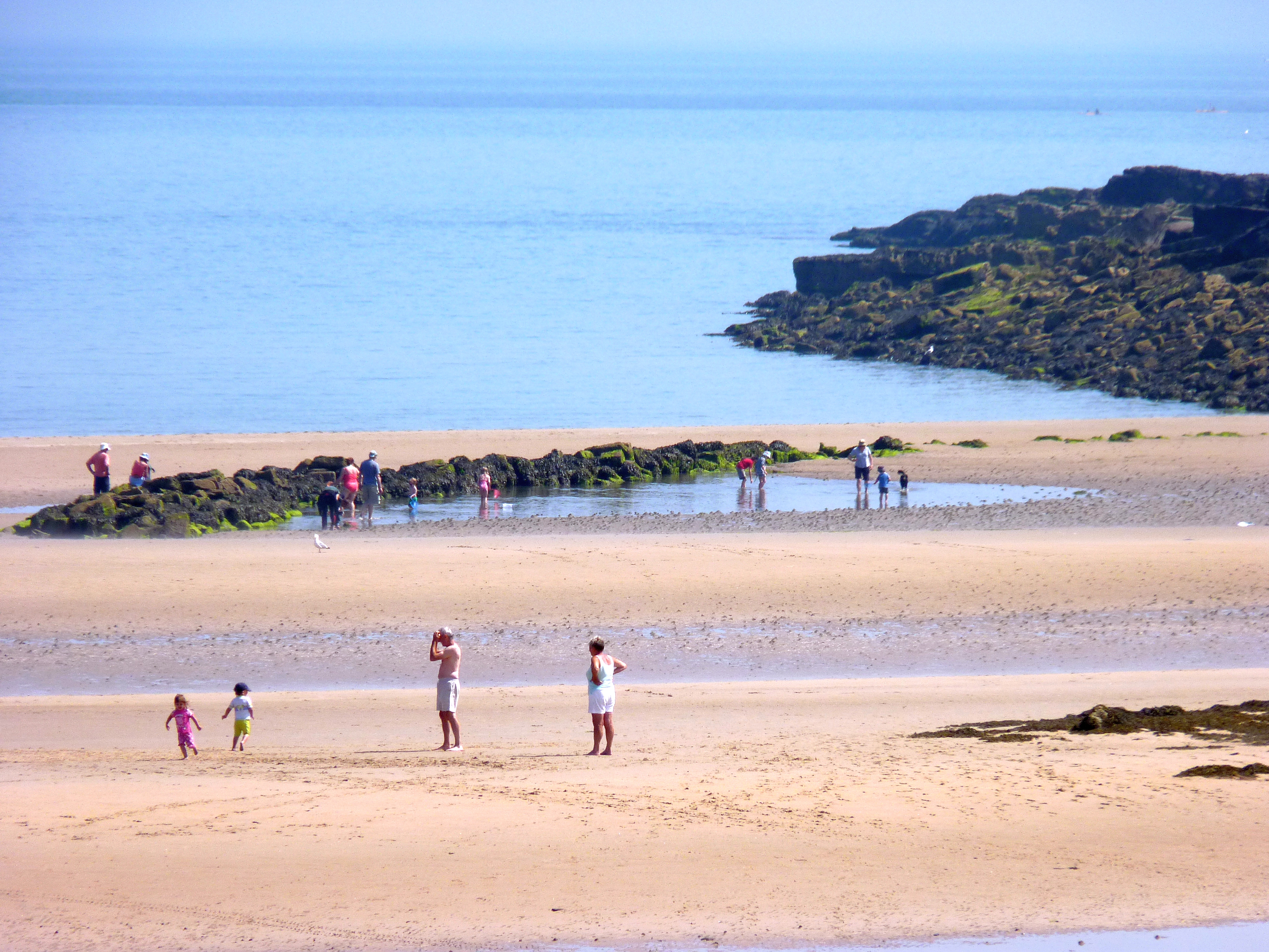 Fish trap built near the low-tide mark of Lligwy Bay, near Moelfre, Anglesey. Post-medieval in date, it is covered at high-tide, and would have trapped fish in the pond it creates at low-tide.